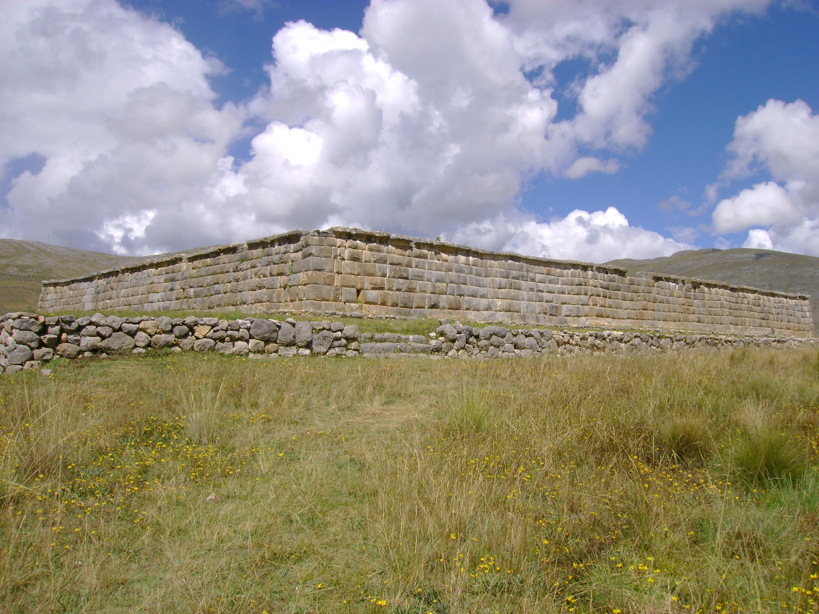 Ushno Castle.